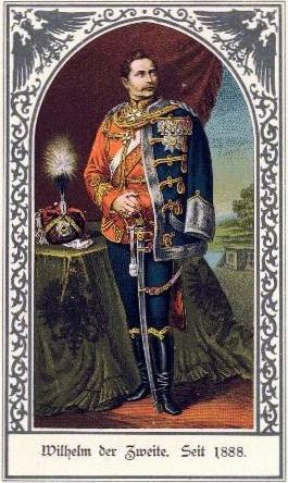 This is a scan of the historical document